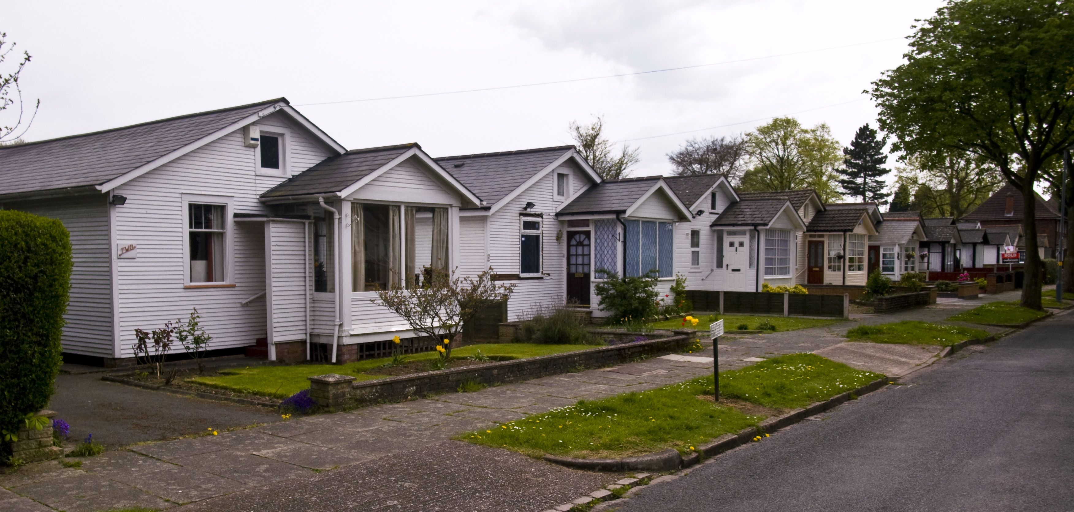 Prefabricated houses, built 1917, in Austin Village, Longbridge, Birmingham, England.